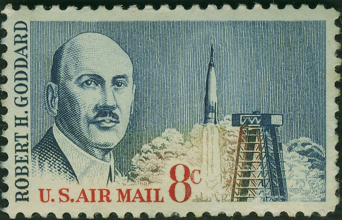 8¢ US airmail postage stamp honoring Robert H. Goddard